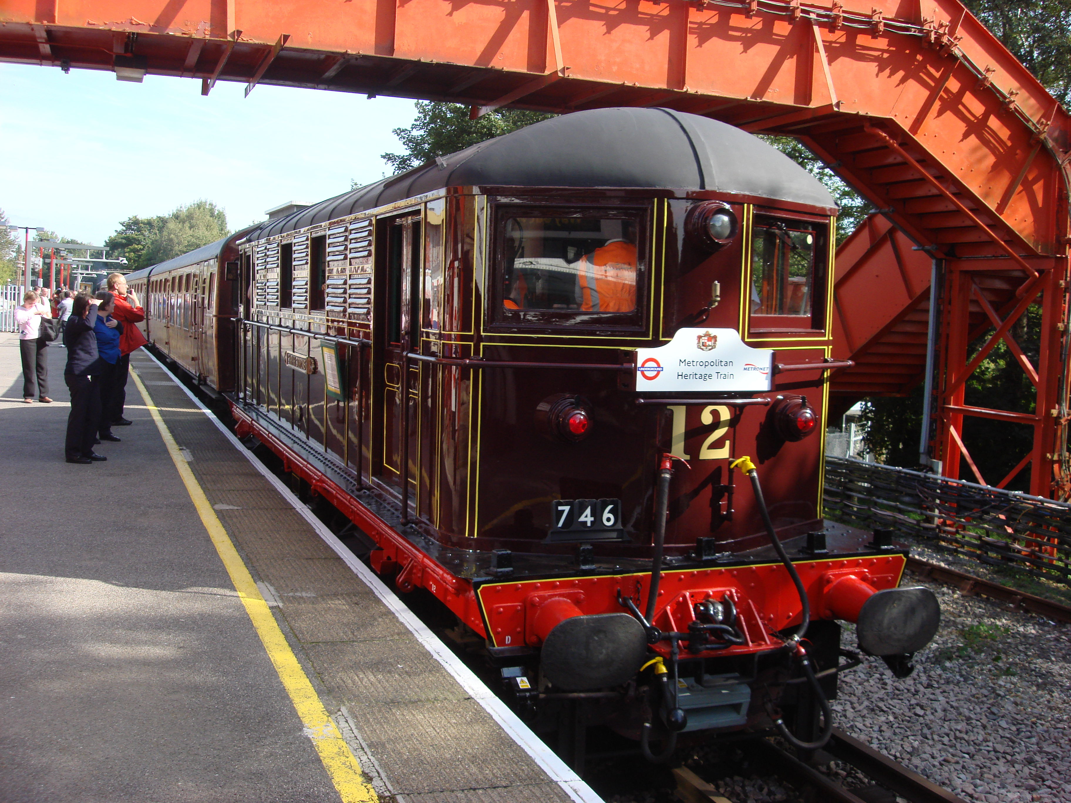 Metropolitan Railway locomotive number 12 "Sarah Siddons" constructed by Metropolitan Vickers in 1921. Preserved in working order and seen here at Amersham station.